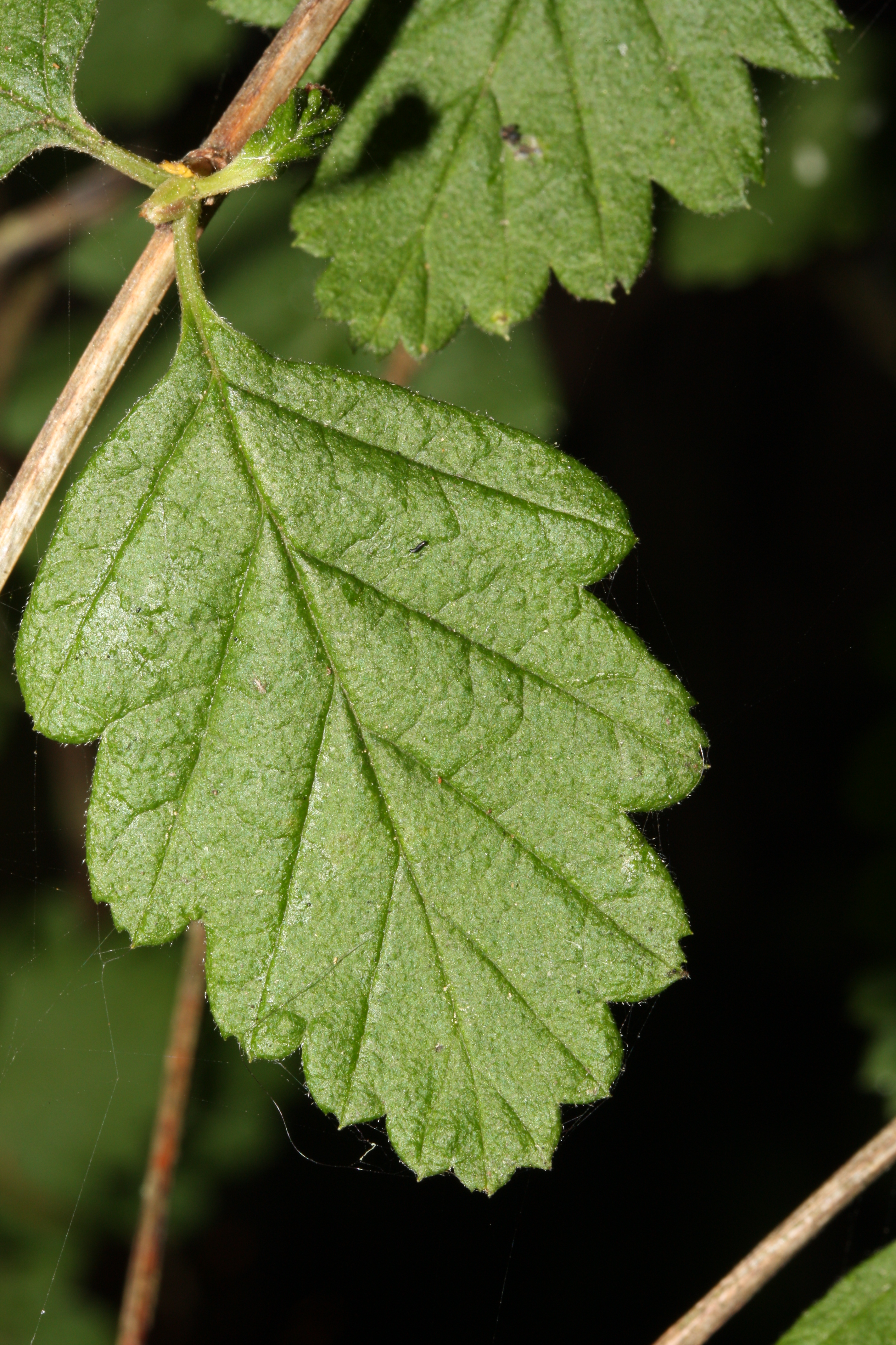 Ocean-spray, Creambush